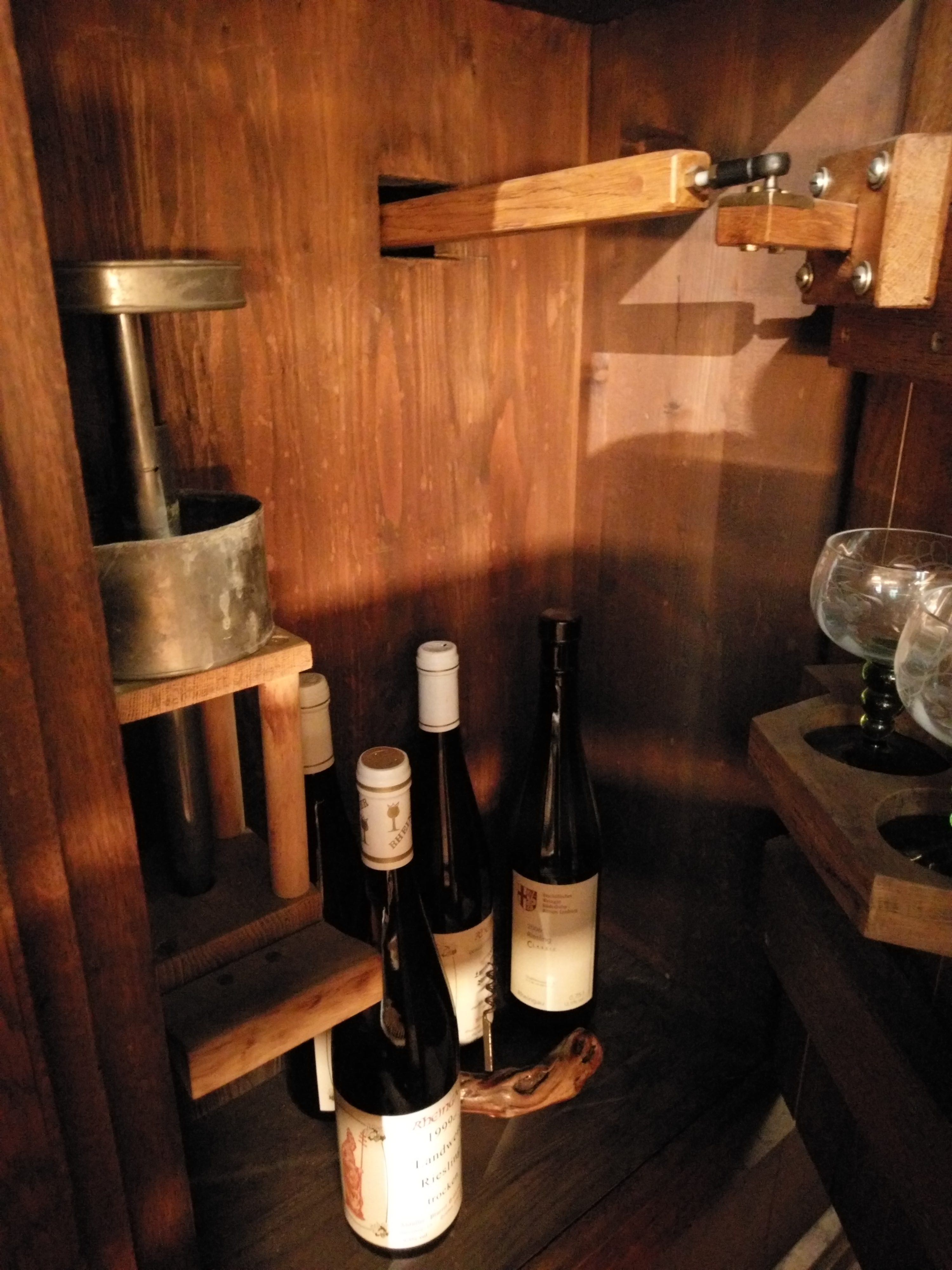 Organ stops of St. Martin, Lorch (Rheingau). Germany